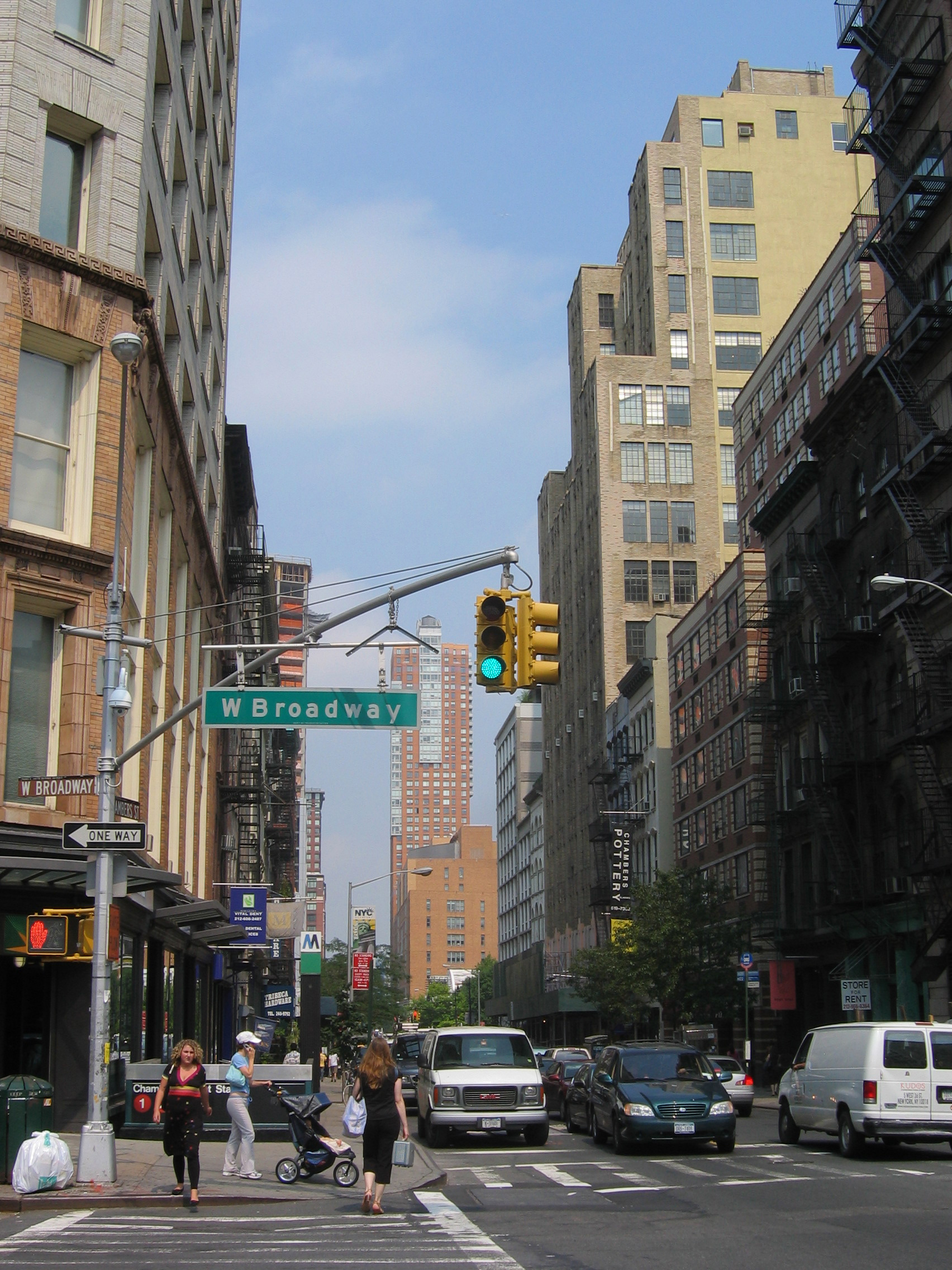 Chambers Street and West Broadway in TriBeCa. Photo by User:Kmf164.